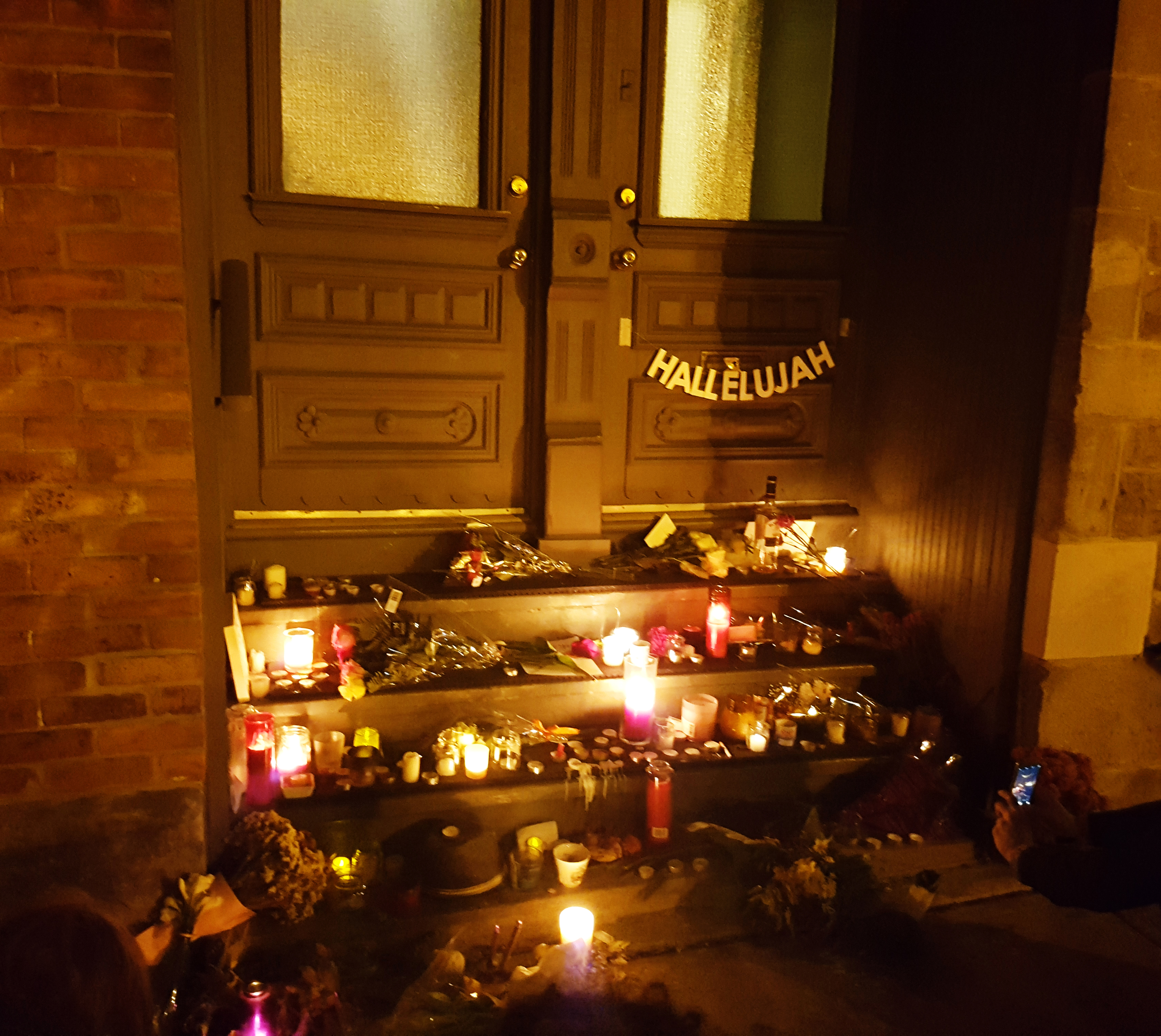 Makeshift memorial for singer, songwriter, poet Leonard Cohen in front of his former residence at 28 rue Vallières in Montreal on November 11th, 2016, hours after the announcement of his death.